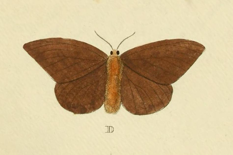 Hylesia metabus in Plate LXXIV of Cramer and Stoll:De uitlandsche kapellen vol. 1